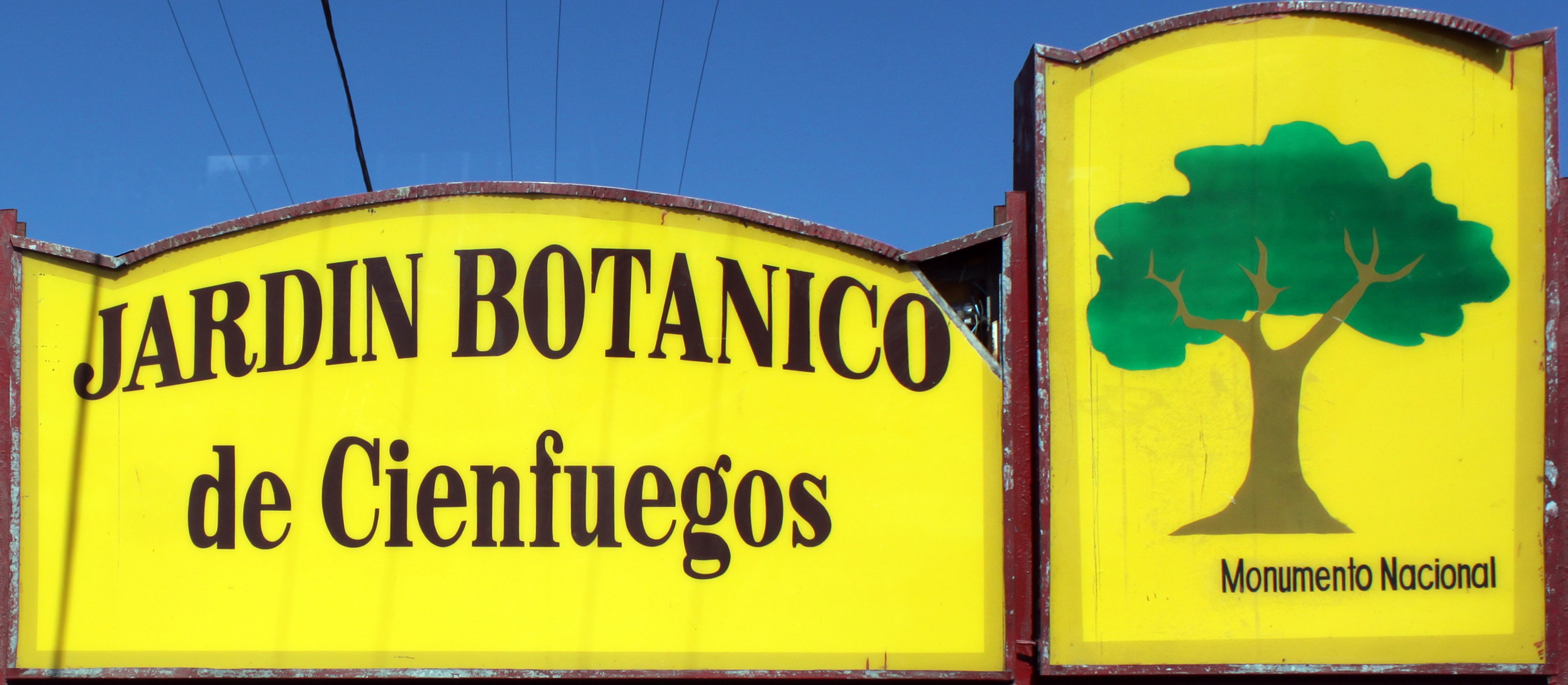 Botanic Garden of Cienfuegos, Cuba